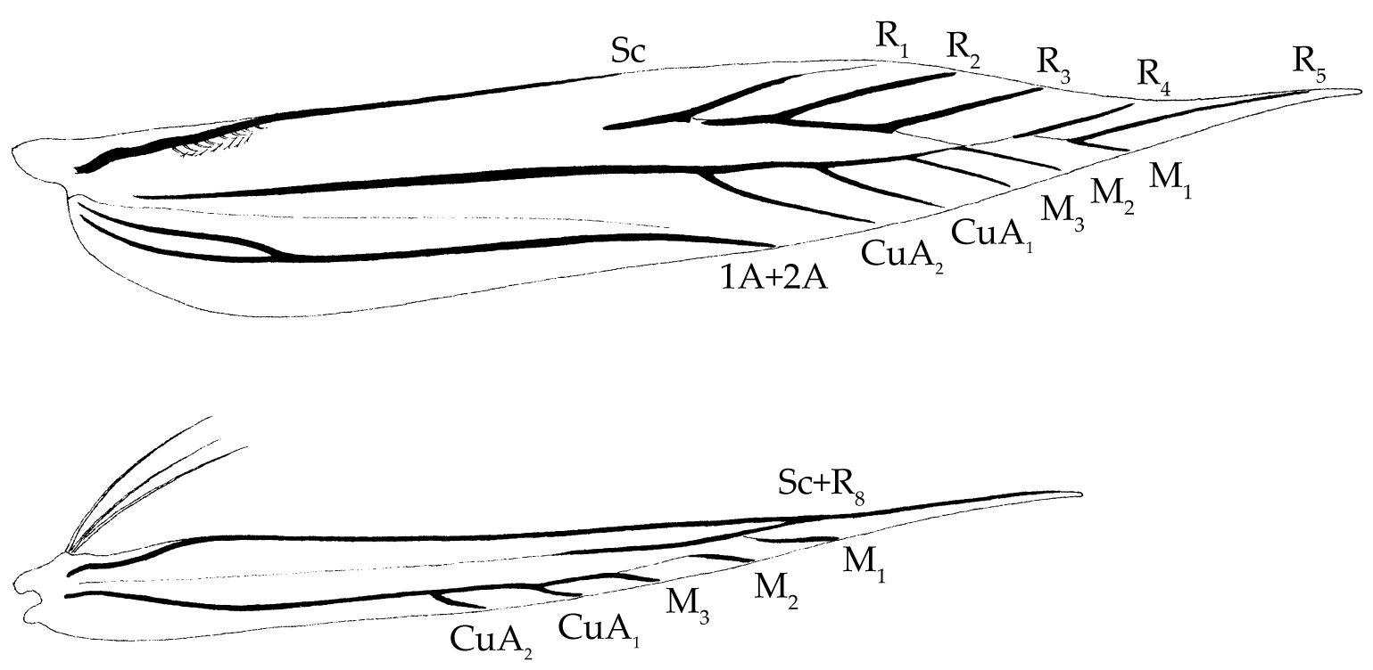 Wingvenation of Pebobs ipomoeae